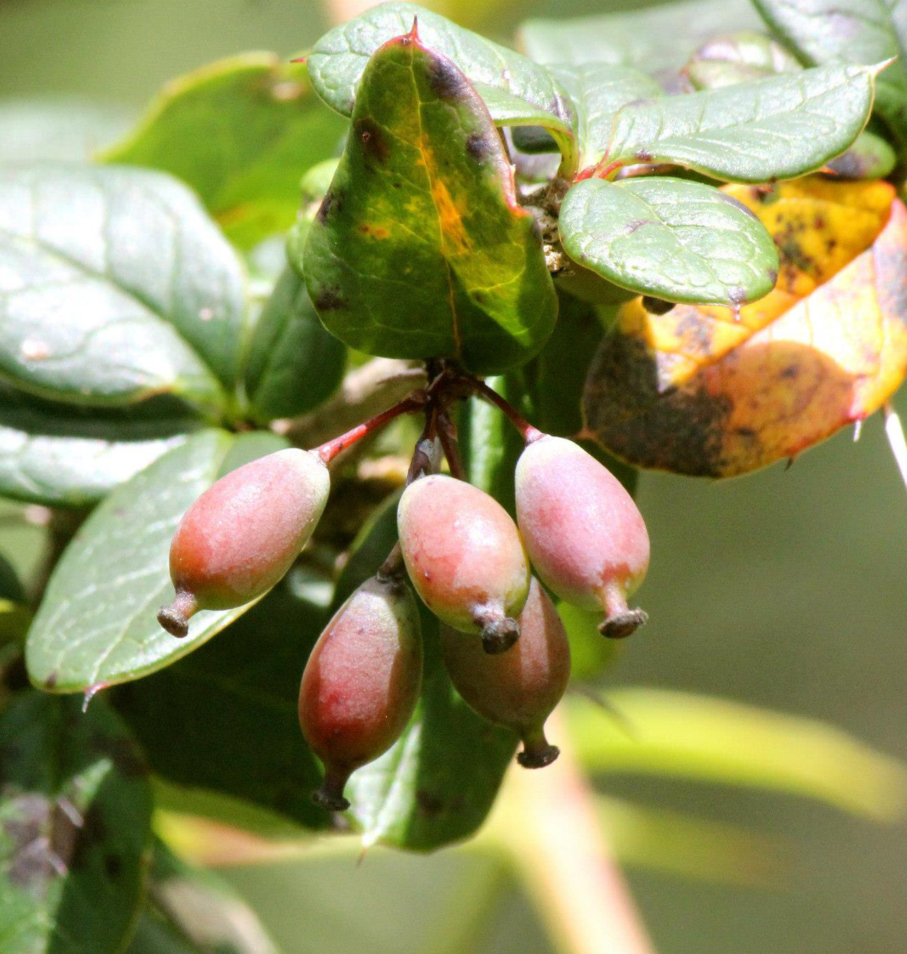 this is a photograph of Berberis aristata fruit